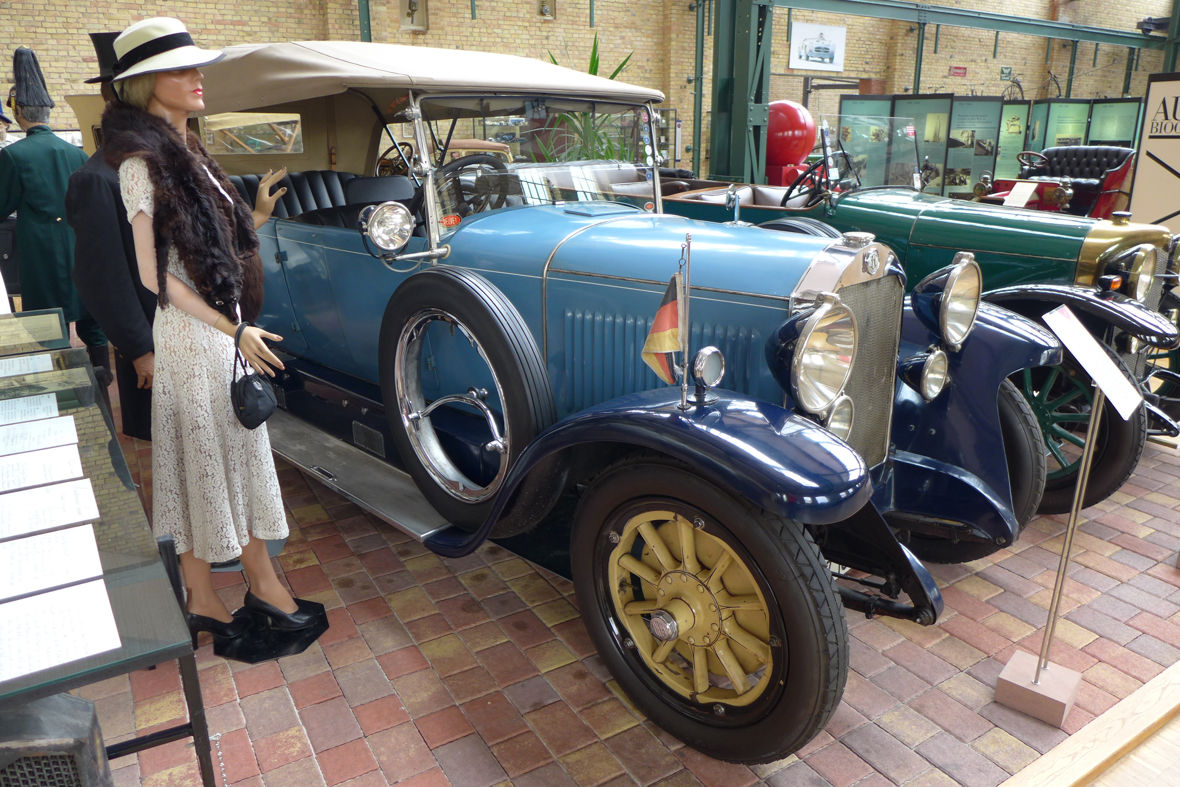 A 1925 Benz 10/35 PS, on display at the Automuseum Dr. Carl Benz, Ladenburg, Baden-Württemberg, Germany.